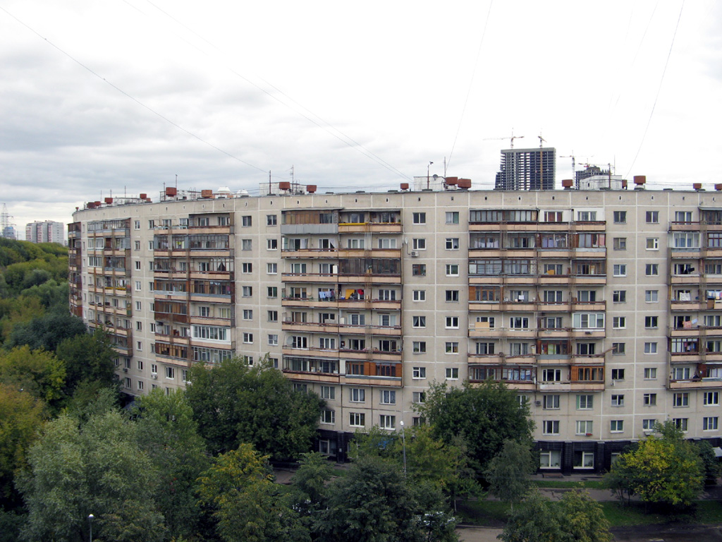 Round building on Dovzhenko Street, Moscow, Russia.